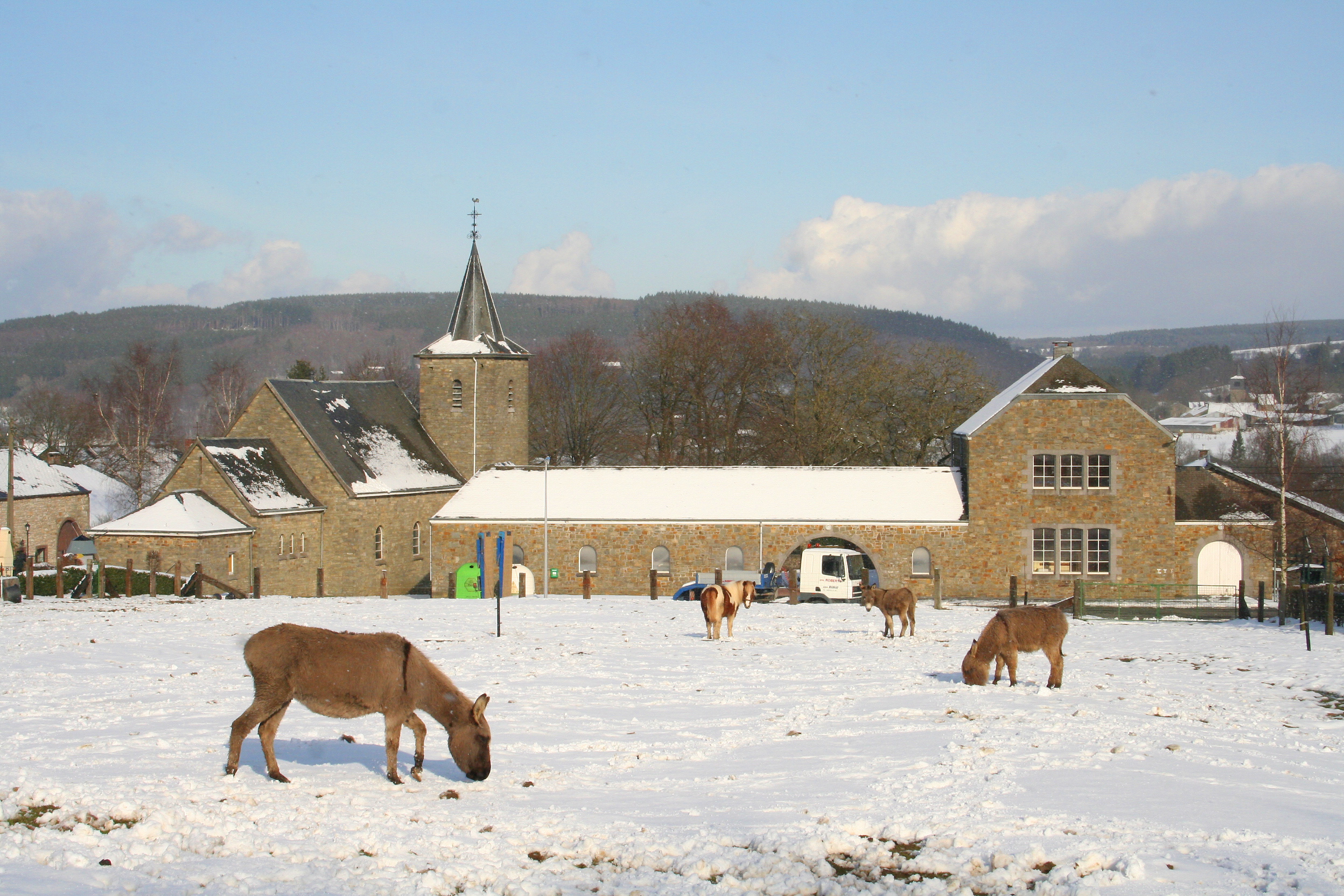 Lamormenil (Belgium), the village in the winter.